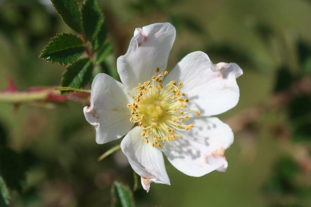 (en) Rosa agrestis, a photography originating of the internet site The accord of the autor, H. Brisse, is here. (fr) Rosa agrestis, une photographie issue du site internet L'accord de l'auteur, H. Brisse, se situe ici.